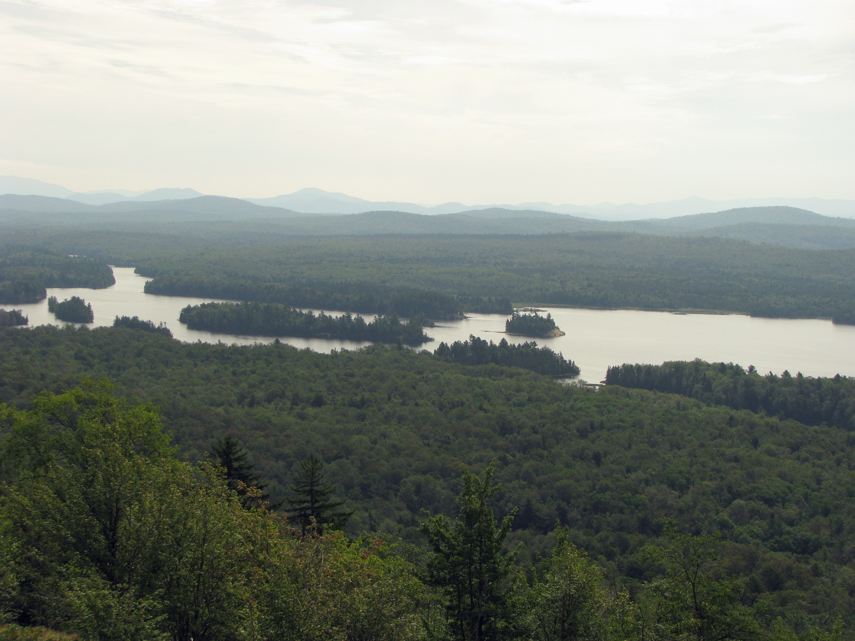 The view of Low's Lake from Grass Pond Mountain, looking southwest towards the Bog River Flow.